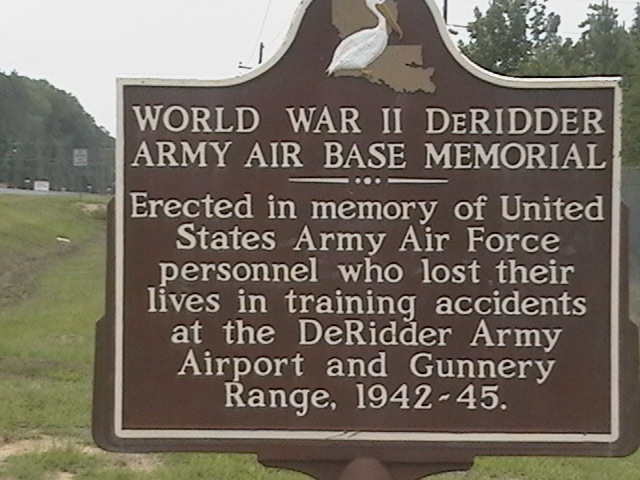 Roadside marker for the DeRidder Army Airbase.